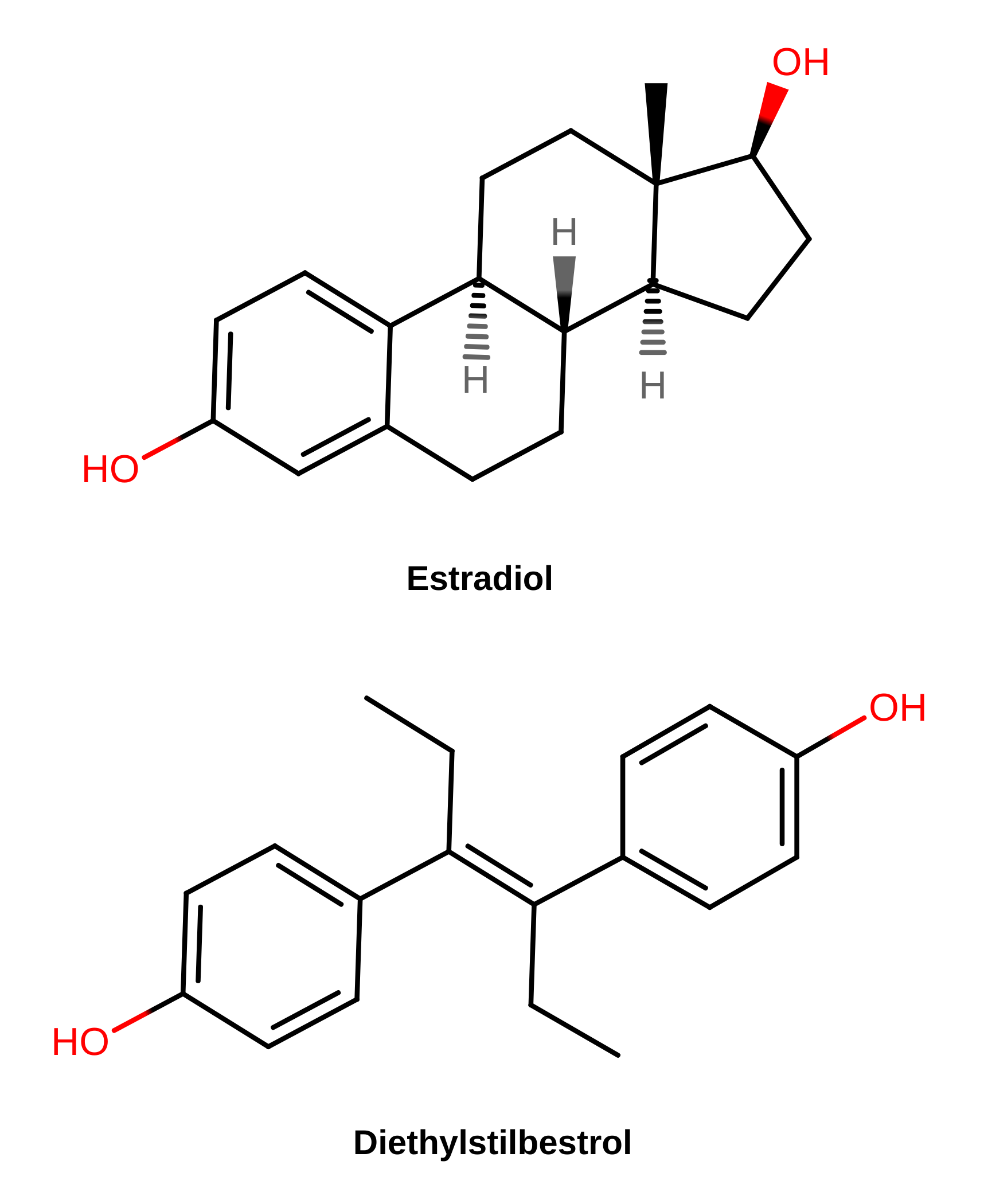 I made this, anyone can use it. Made with Marvin JS. Chemical structures of the natural steroidal estrogen estradiol and the synthetic nonsteroidal estrogen diethylstilbestrol.